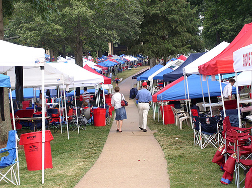 Tailgating area at the University of Mississippi (Ole Miss) known as The Grove